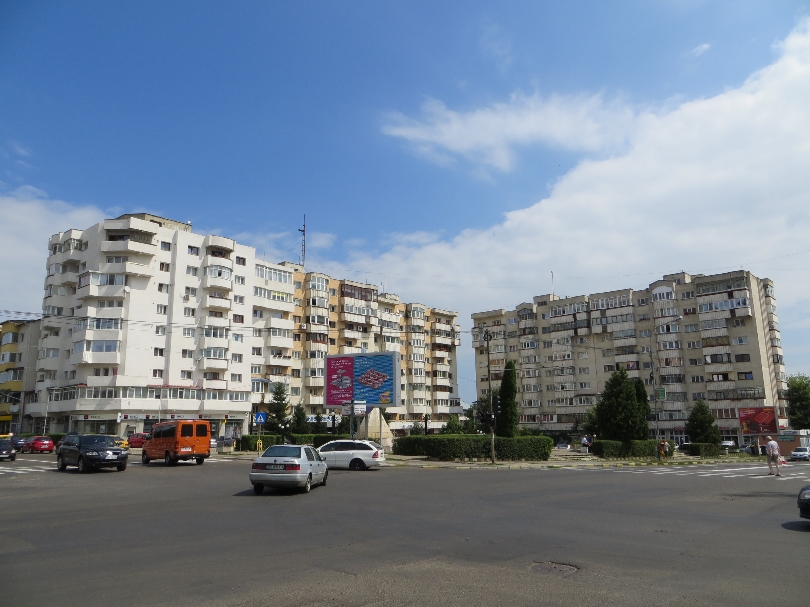 Apartment blocks in Suceava (Panasonic block).